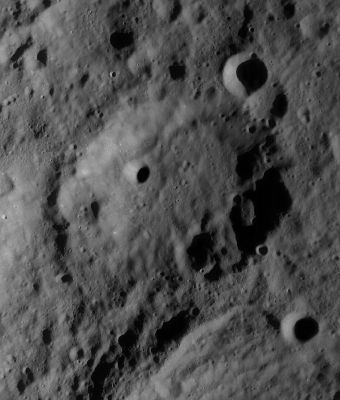 Pawsey lunar crater - LROC image WAC No. M130694561ME.